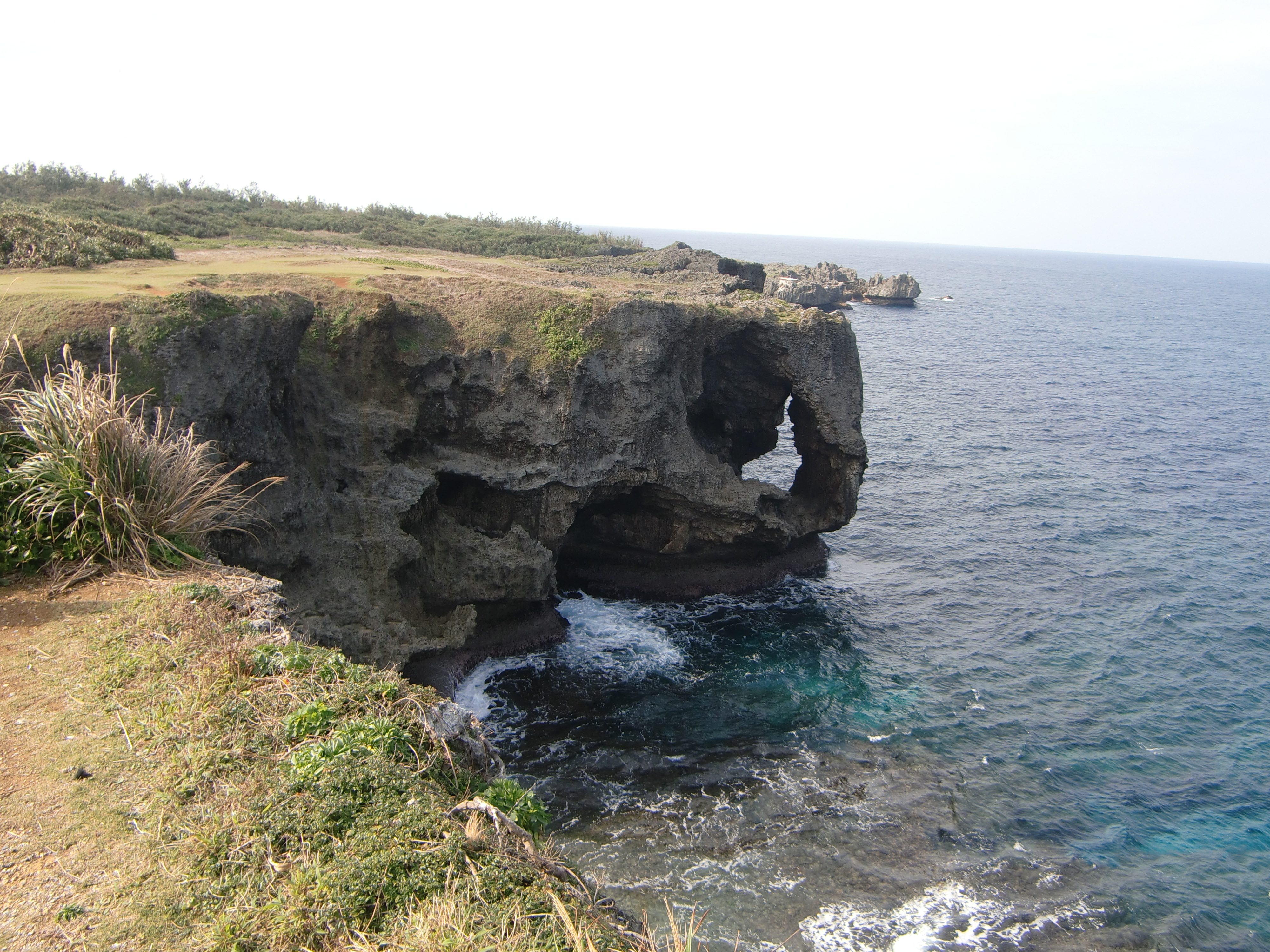 Manzamo Okinawa